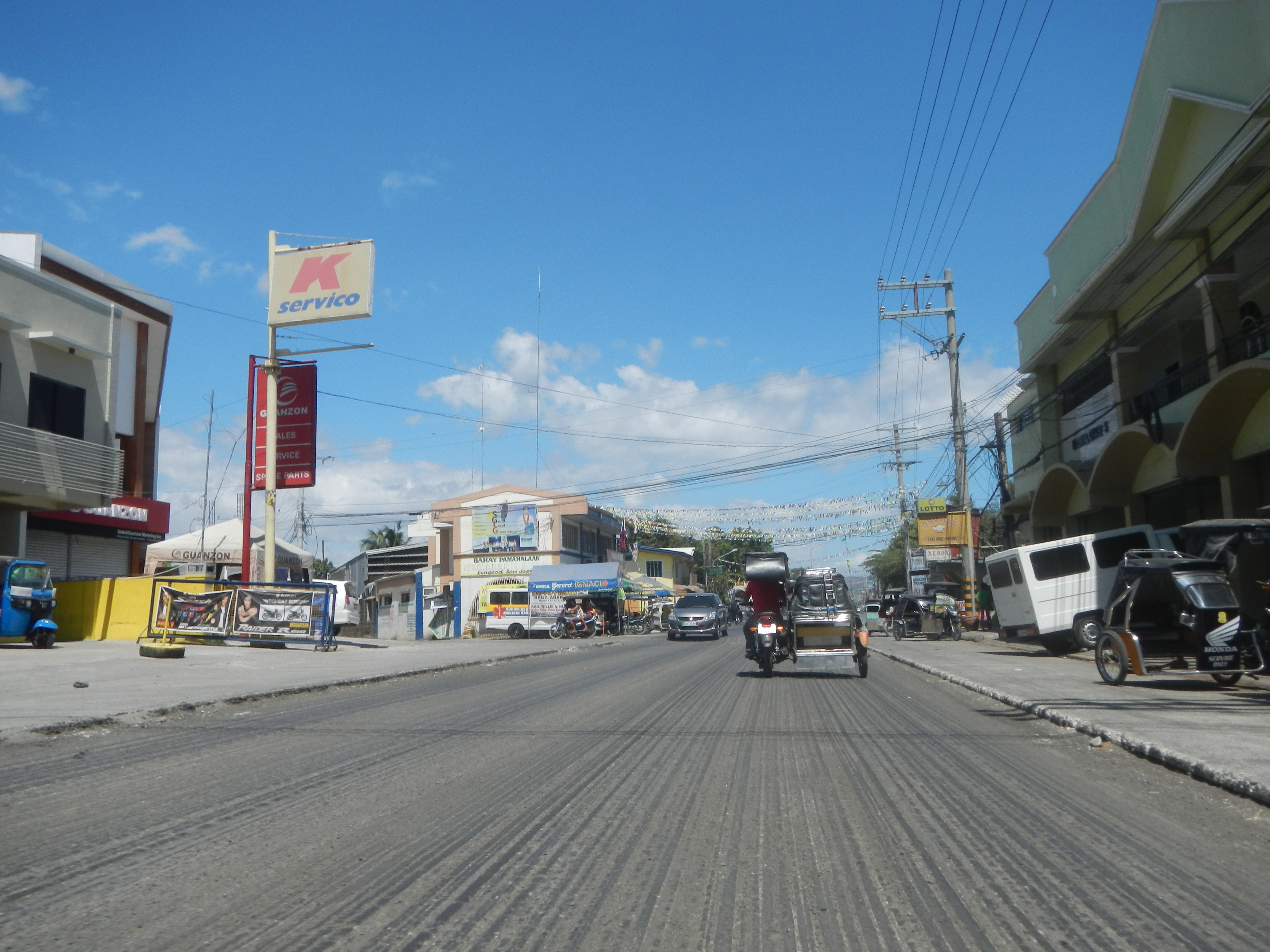 Sitios and villages of Abar 1st, San Jose City, Nueva Ecija Sitio San Jose - Rizal Road (San Jose City section) Sitio from or along Maharlika Highway (Cagayan Valley Road, San Jose City, Nueva Ecija section) Category:Barangays of Nueva Ecija Barangays Abar 1st 15.7895, 120.9798 Rafael Rueda 15.8008, 120.9912 from San Jose, Nueva Ecija from Pan-Philippine Highway Philippine highway network (Note: Judge Florentino Floro, the owner, to repeat, Donor Florentino Floro of all these photos hereby donate gratuitously, freely and unconditionally Judge Floro all these photos to and for Wikimedia Commons, exclusively, for public use of the public domain, and again without any condition whatsoever).